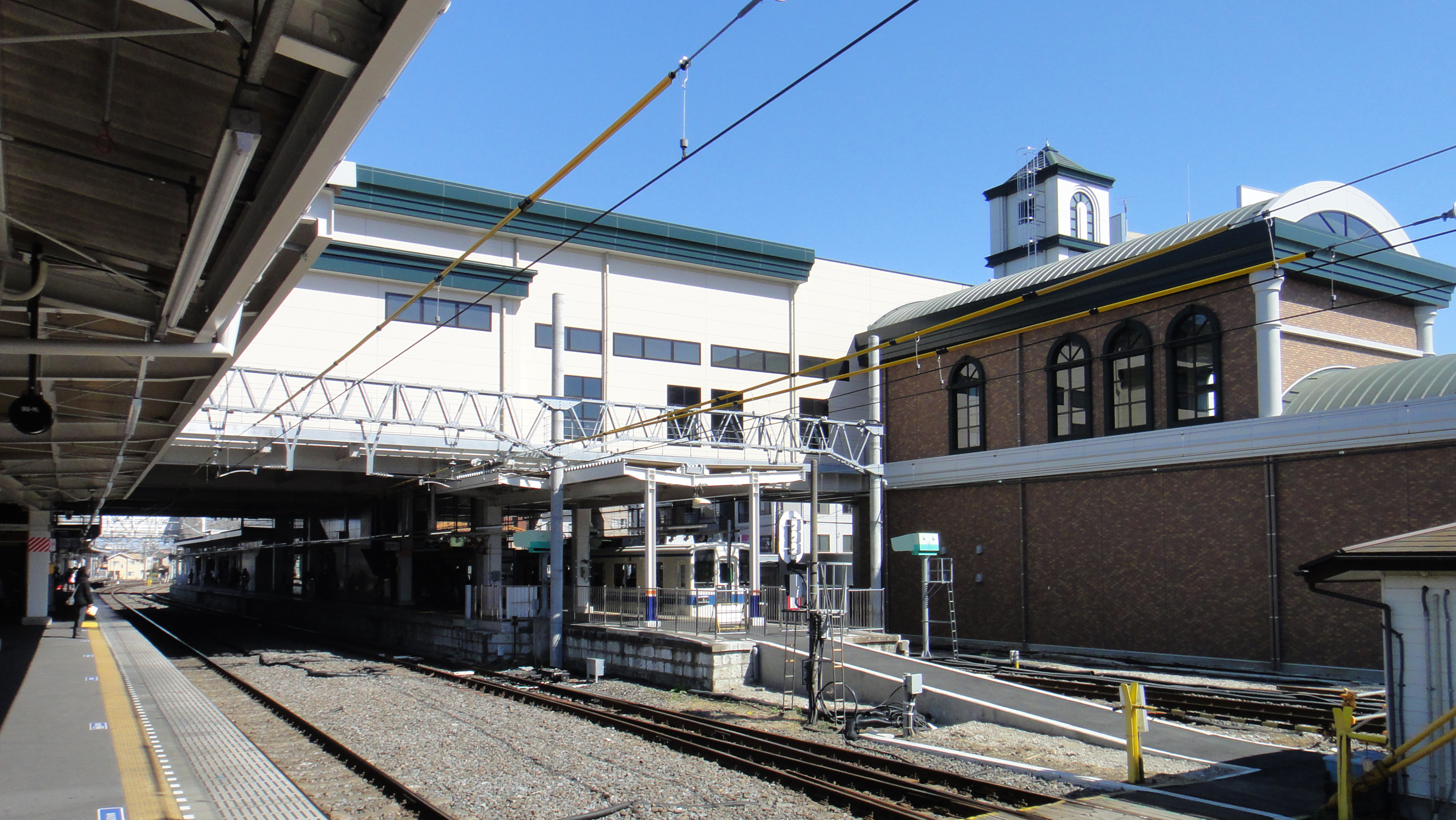 Sakado Station looking eastward (toward Ikebukuro) from platforms 3/4